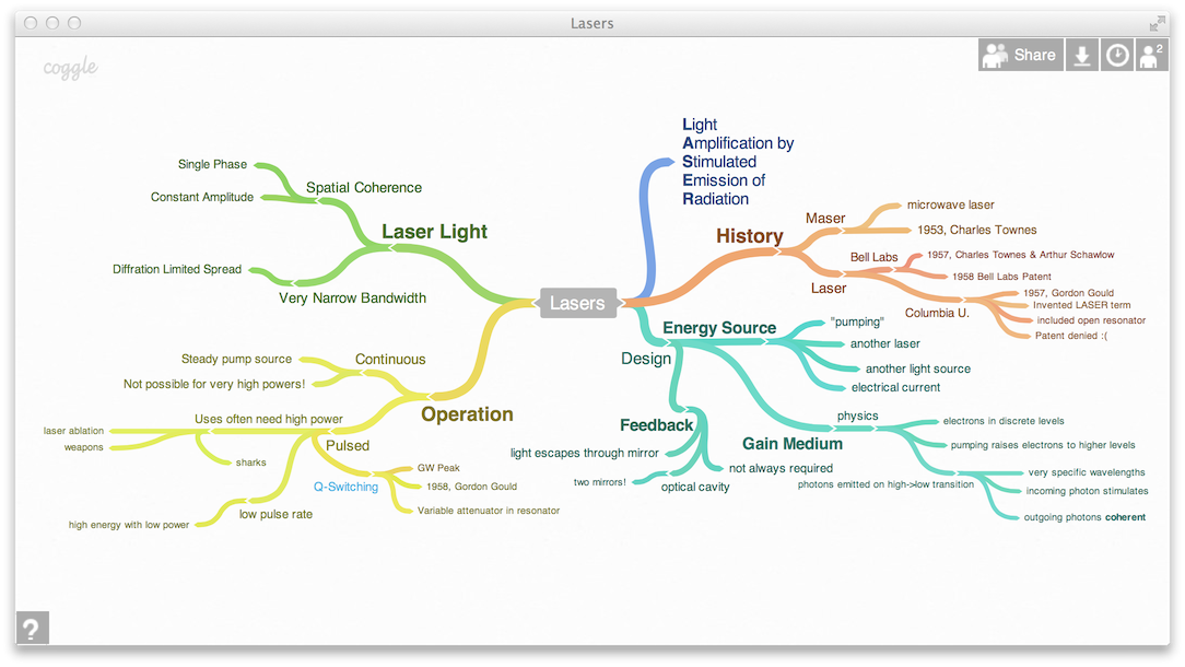 This file illustrates the Coggle graphical document.